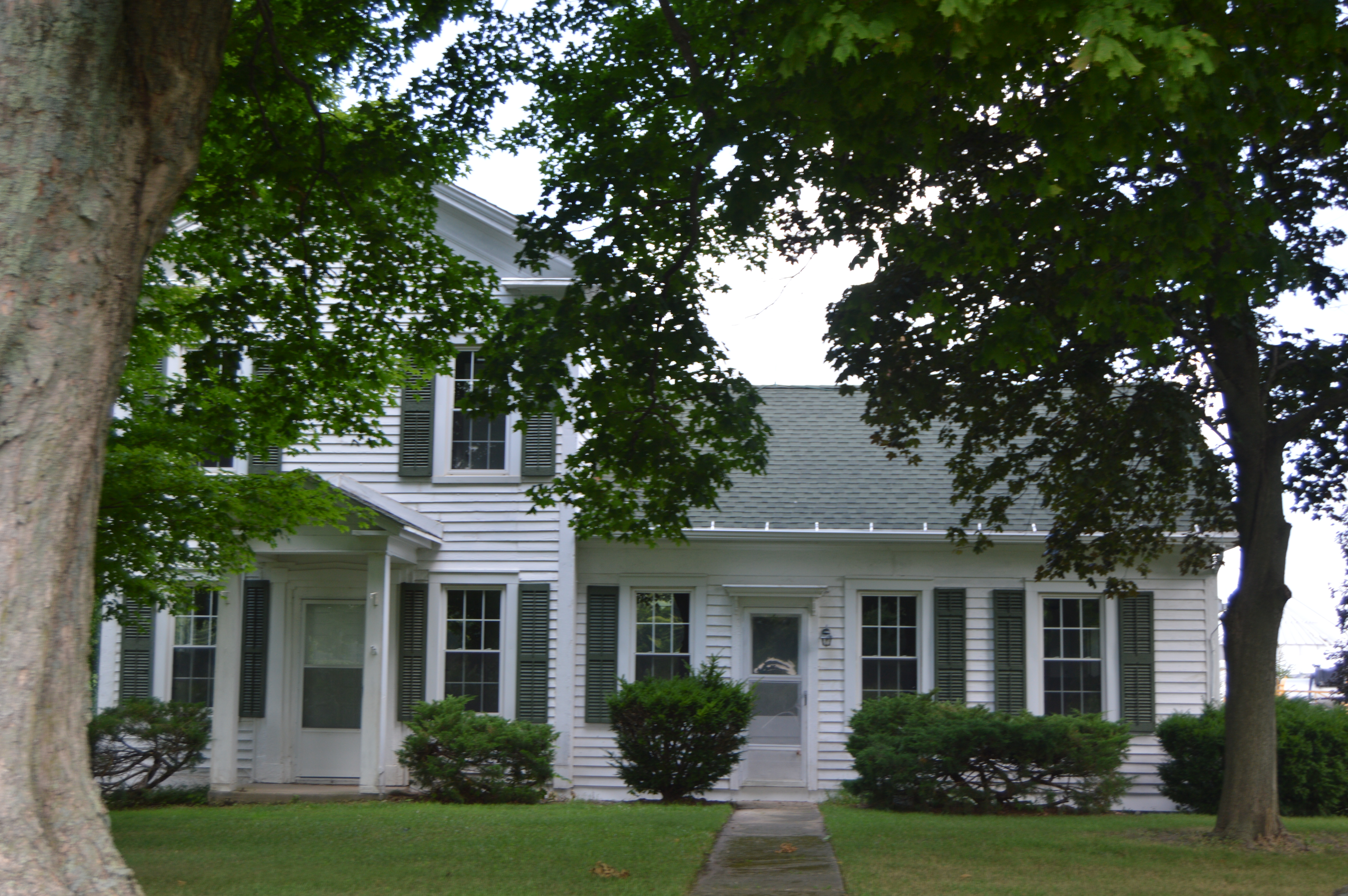 Front of the Erwin House, located at 2518 14-B Road in Tippecanoe Township, Marshall County, Indiana, United States. Built in 1855, it is listed on the National Register of Historic Places.